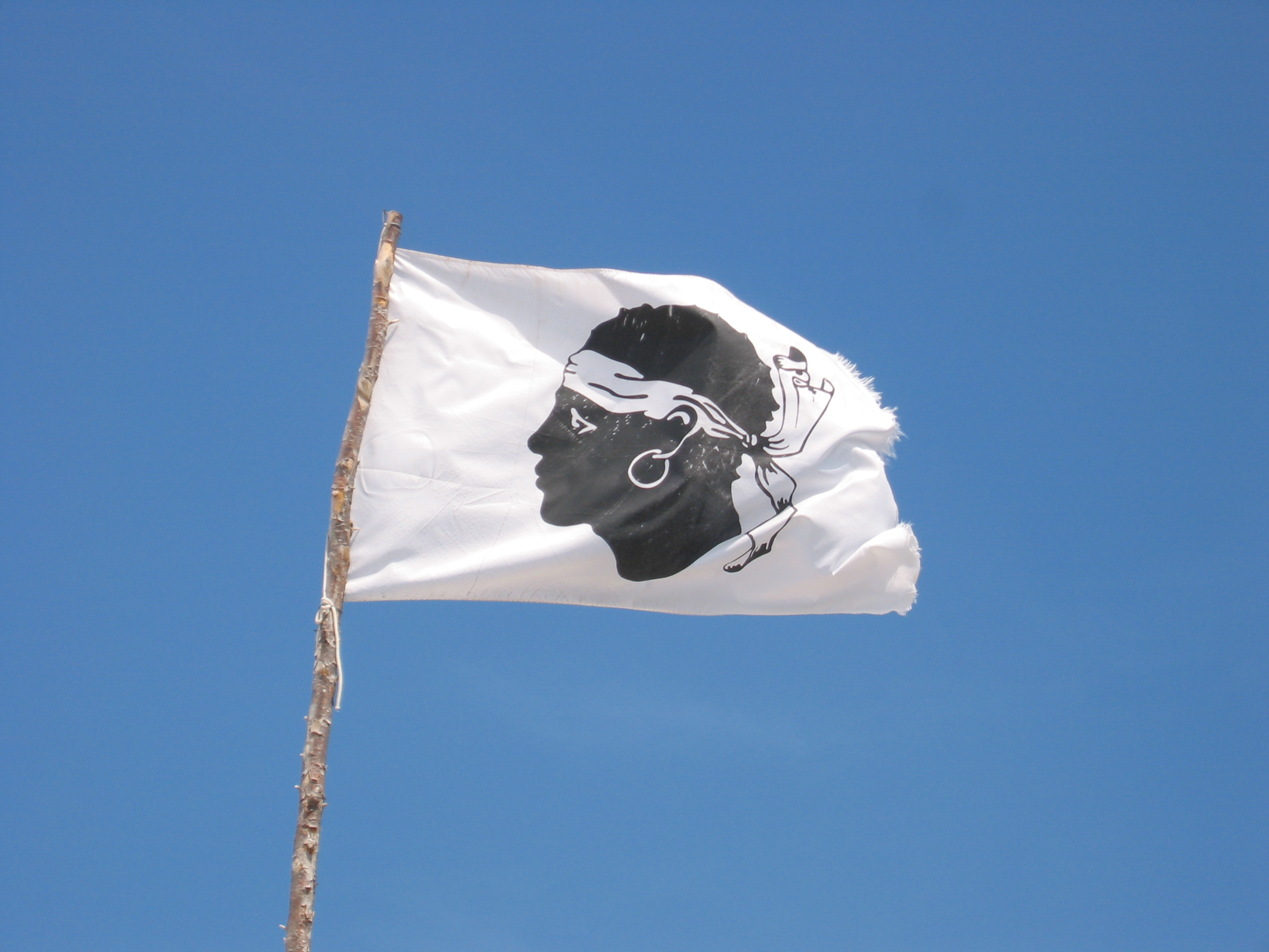 Flag of Corsica